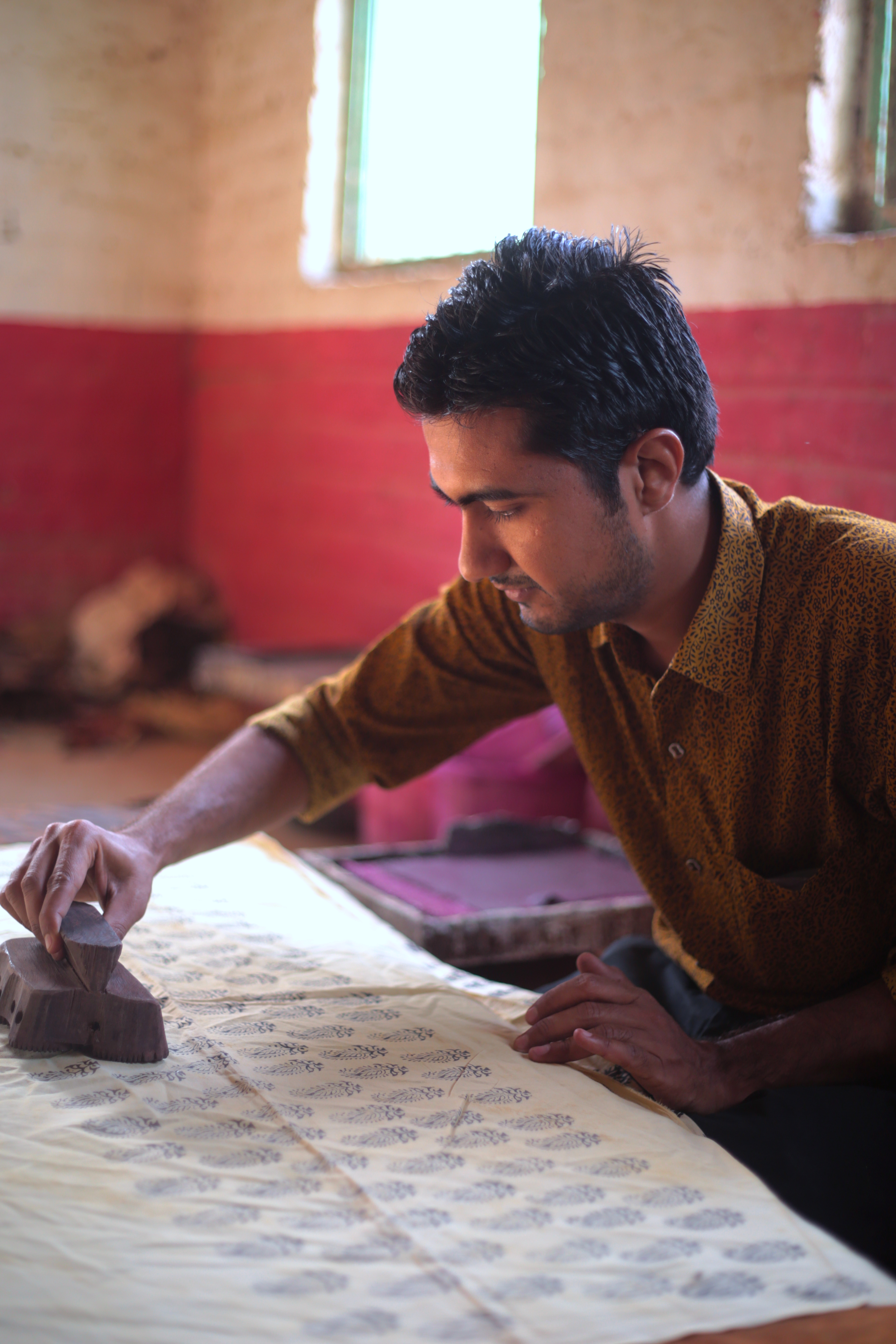 Traditional Bagh hand block print master craftsman-artisan-artist Mohammed Bilal Khatri, Madhya Pradesh, India.